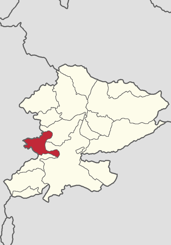 Mijatovac within Cuprija.